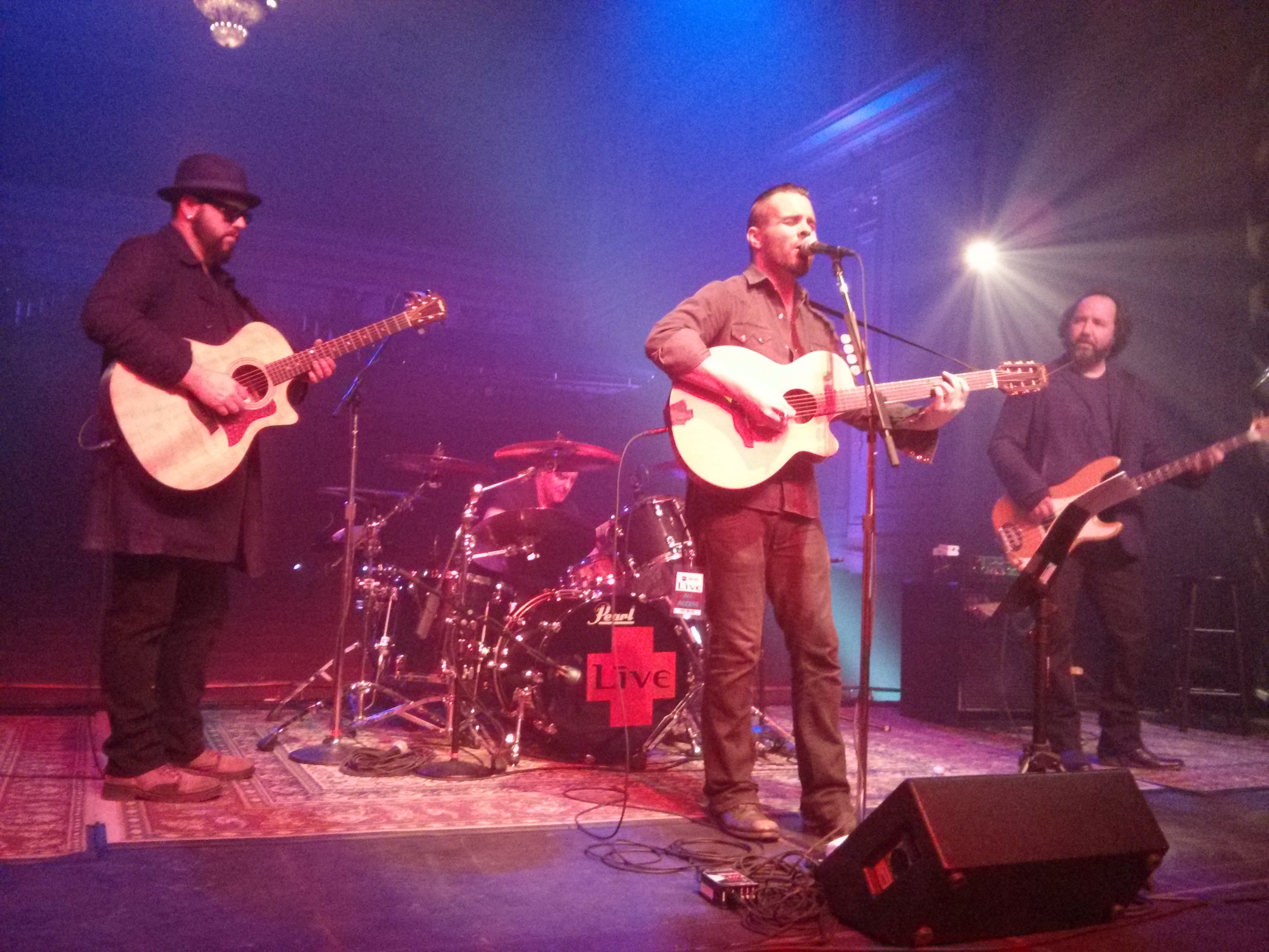 The rock band LIVE performing at United Fiber & Data Launch Party February 28th 2013. In this photo: Chad Taylor, Chad Gracey, Chris Shinn, Patrick Dahlheimer